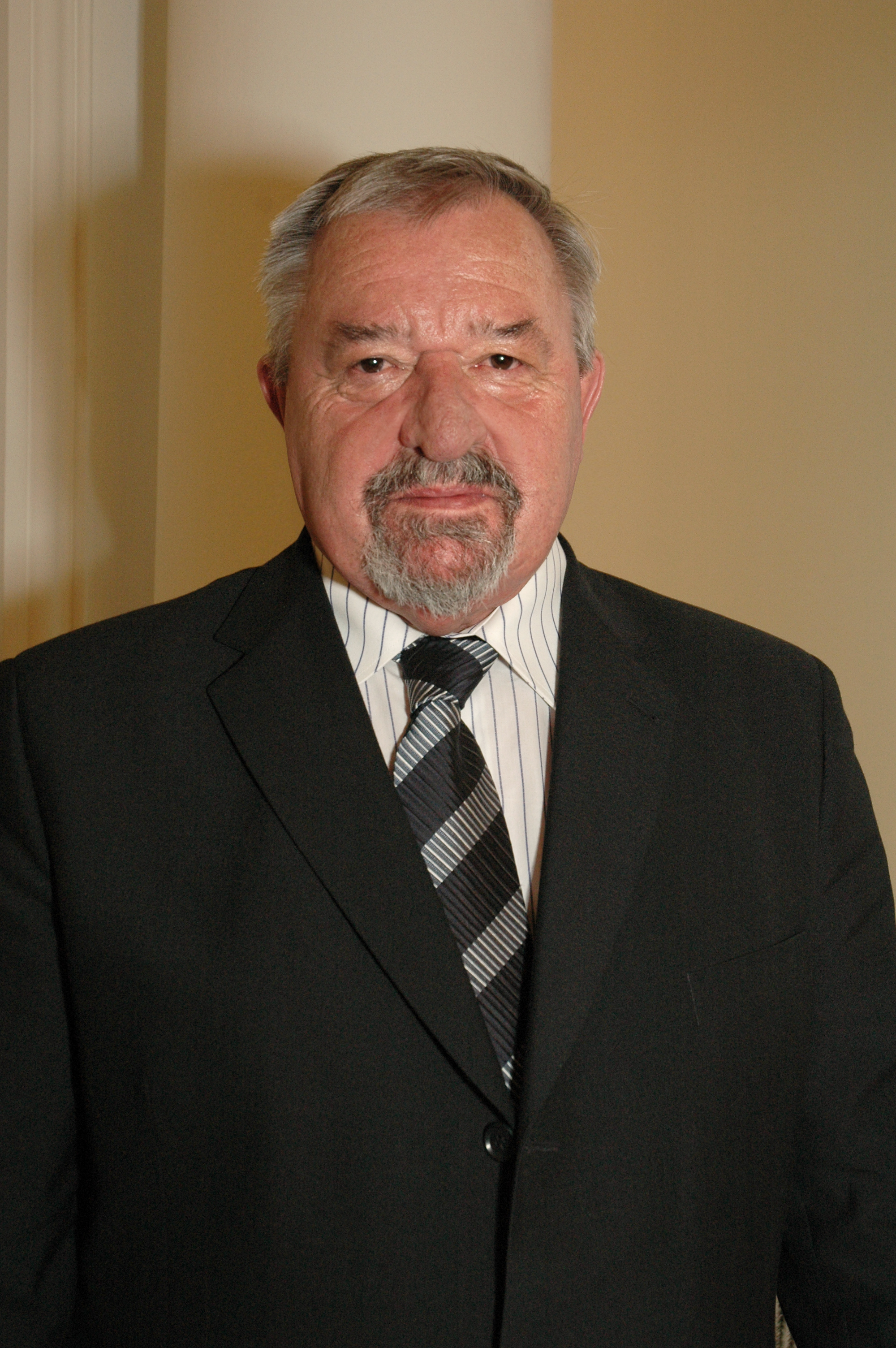 František Šmahel (born 17 August 1934 in Trhová Kamenice) is a Czech historian of medieval political and intellectual history, known for his works about Hussitism, Universities in the Middle Ages, Humanism, and Monarch representation in the Middle Ages.